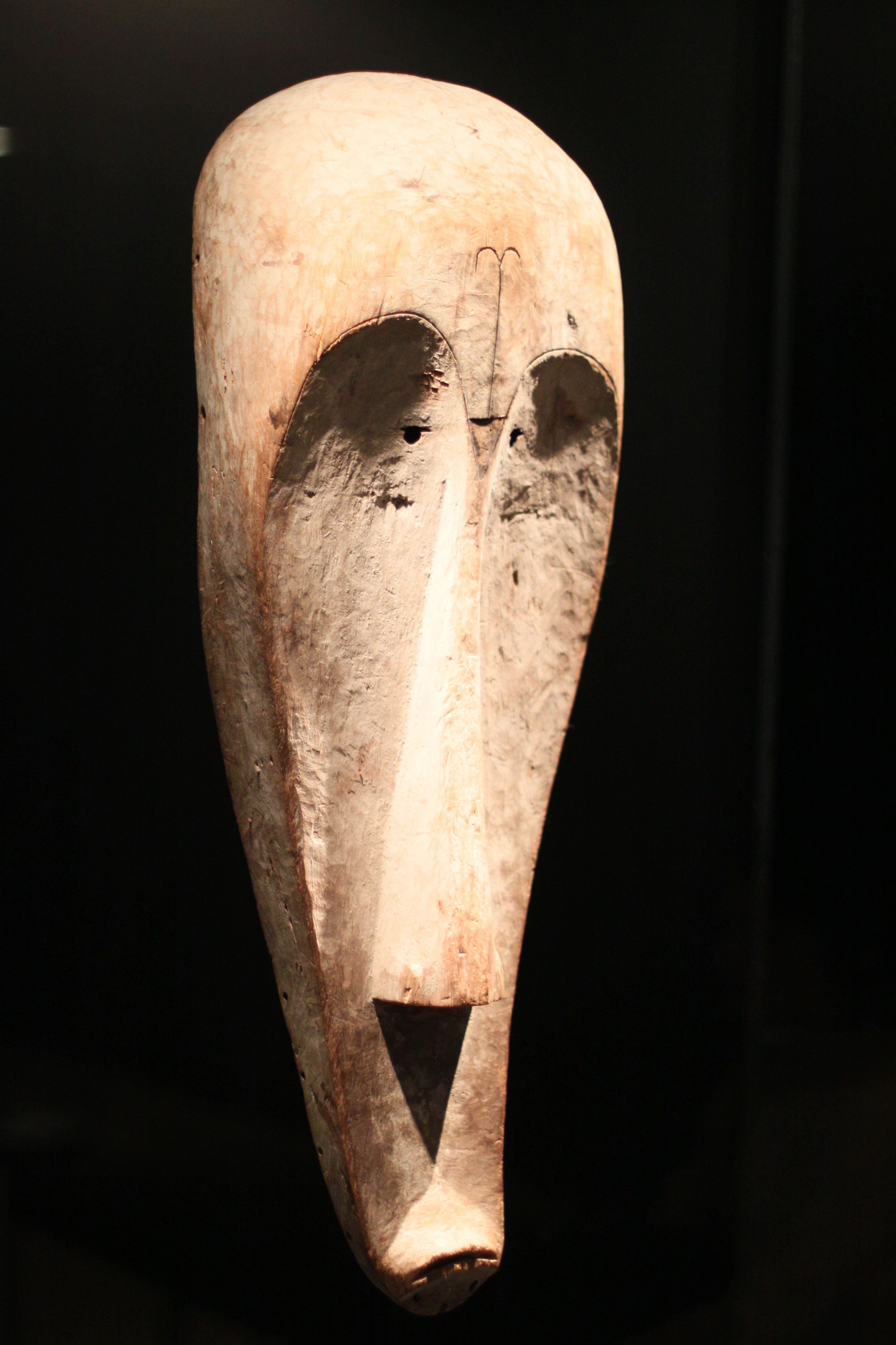 Ngil mask from Gabon or Cameroon; Fang people; wood, kaolin (chiny clay); African department; Ethnological Museum, Berlin, German, Inv. No. III C 6000 (Abel collection, acquired from H. Oelert, 1895)